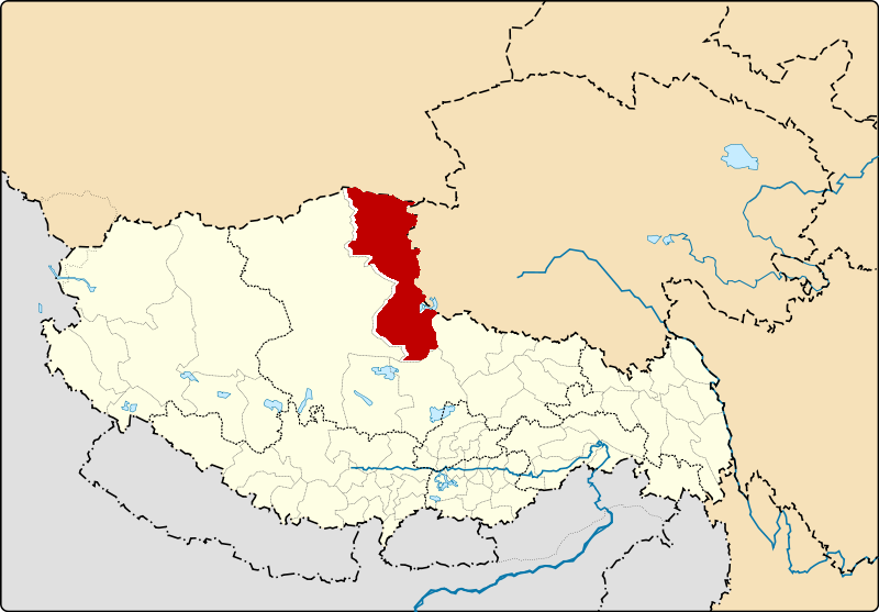 Shuanghu Special District, Tibet.